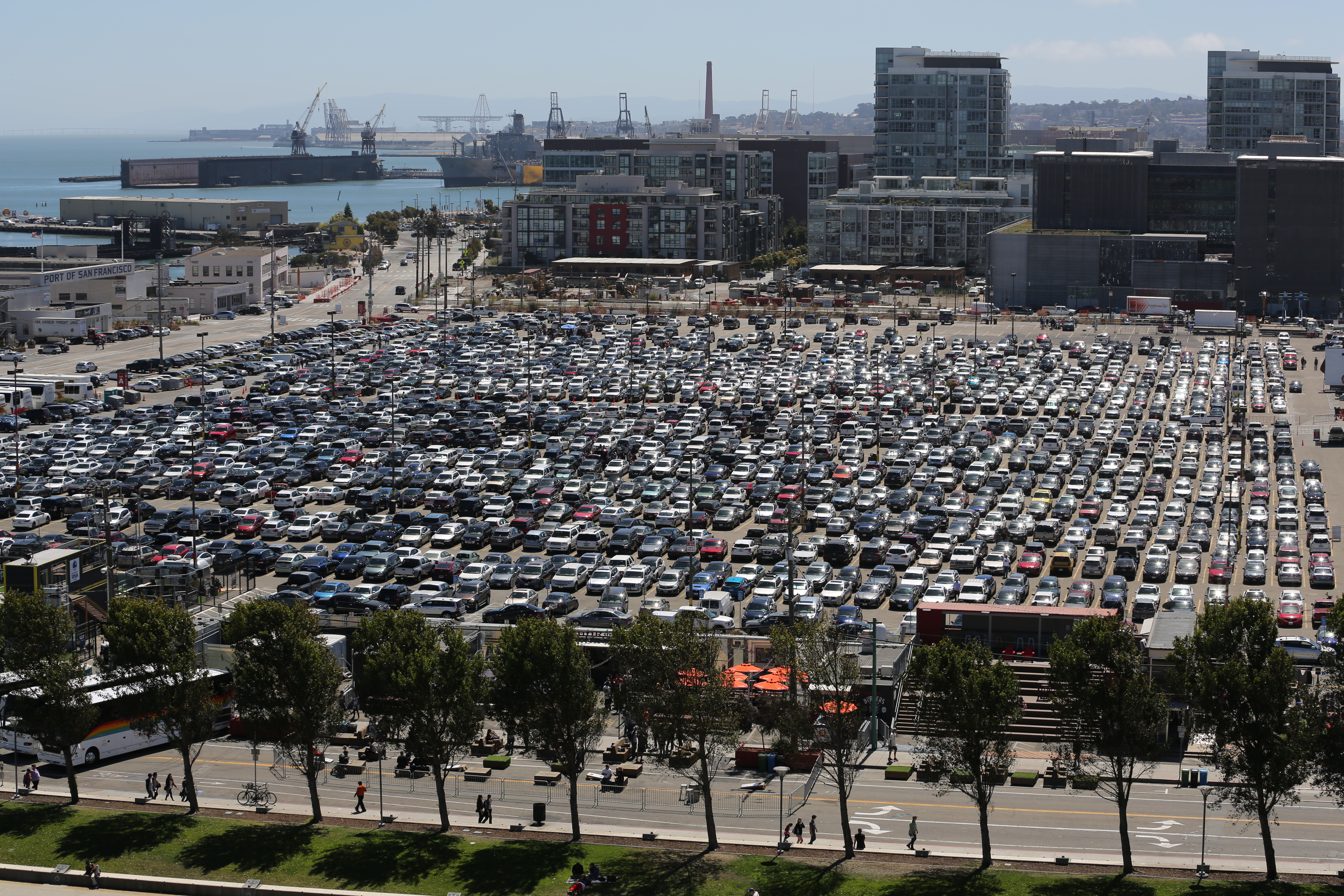 Parking lot at AT&T Park in San Francisco (TK)